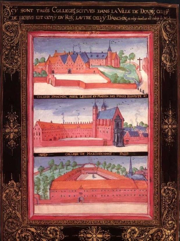 Illustration of the 3 colleges in the city of Douai